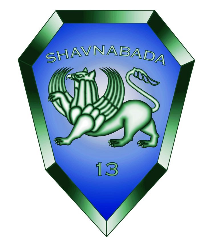 13th "Shavnabada" Light Infantry Battalion crest